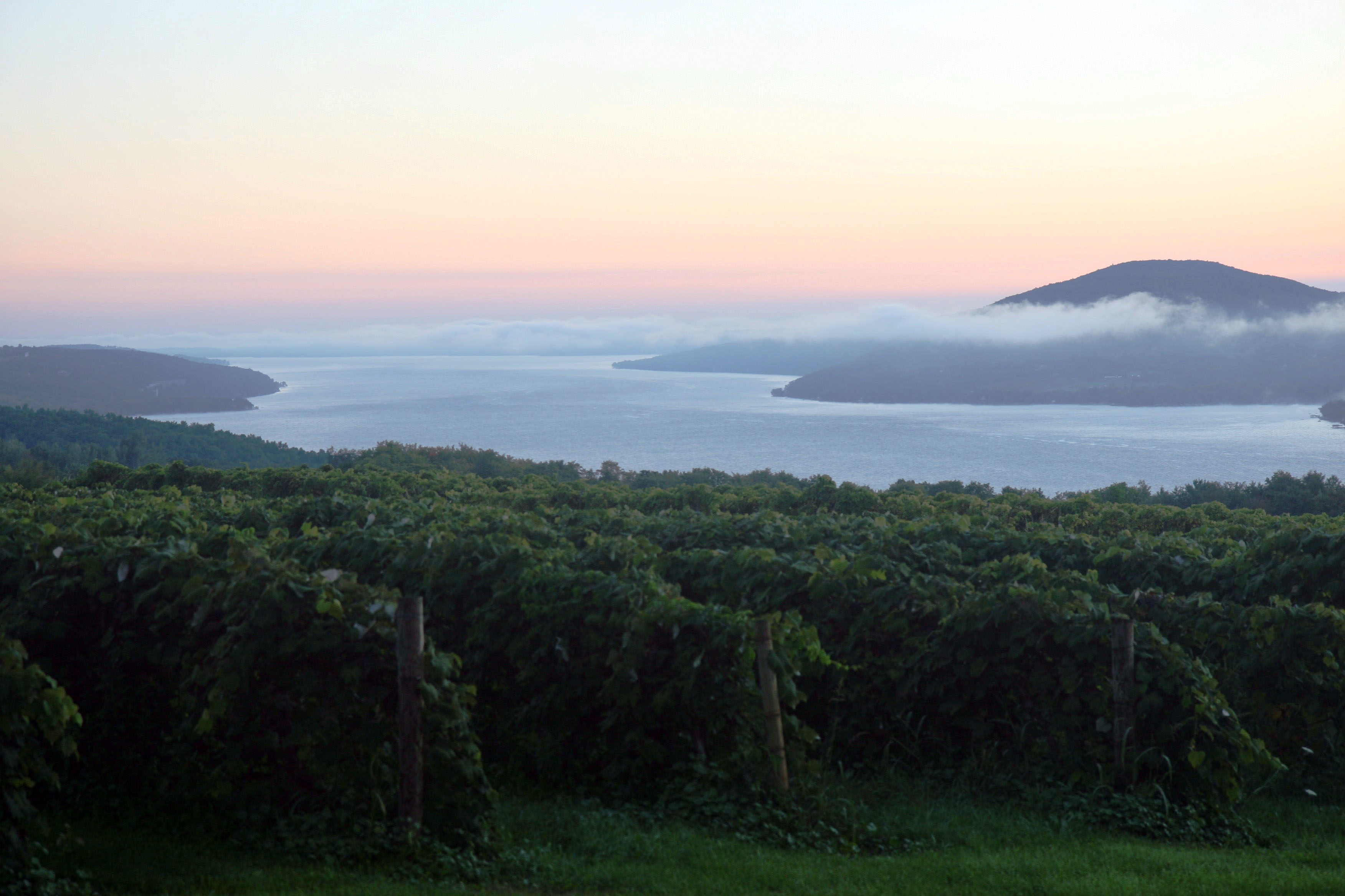 South Bristol, NY